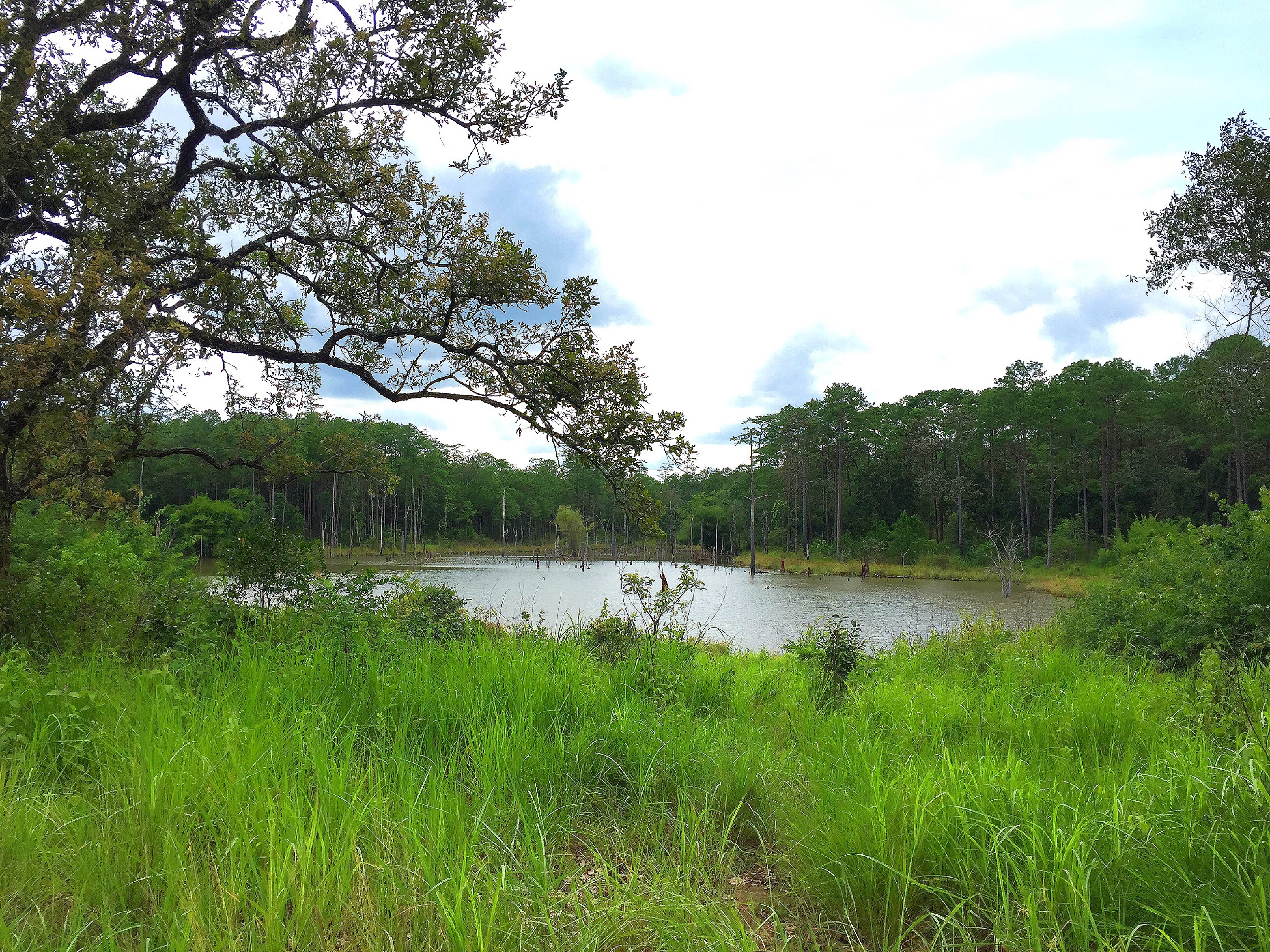 อุทยานแห่งชาติน้ำหนาว